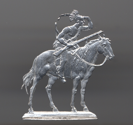 30mm flat tin figure, plains indian, drawing Ludwig Madlener, engraving Ludwig Frank, edition Hans Loy, unpainted.